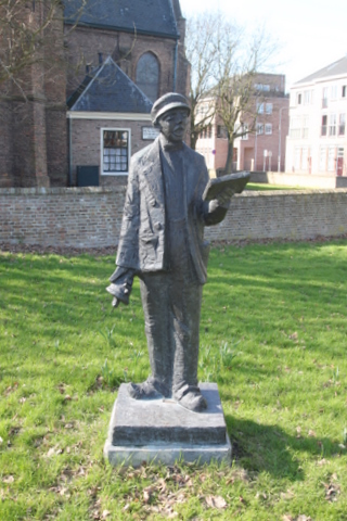 Statue commemorating all village announcers in Spijkenisse